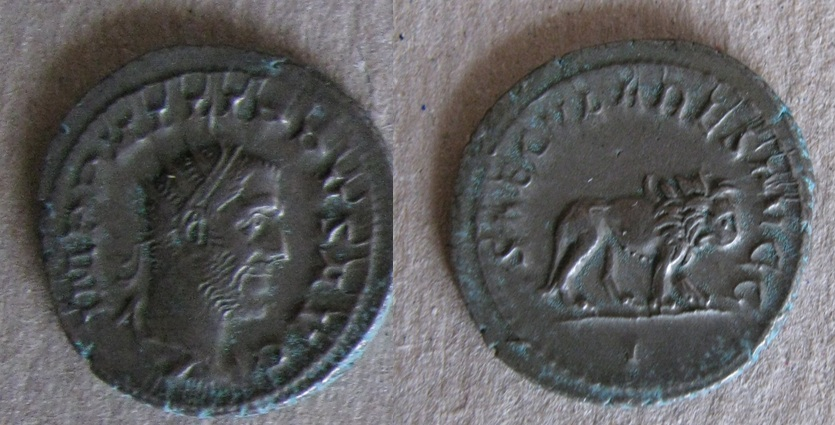 Antoninian of Philip the Arab - 247 - lion - ref Cohen173